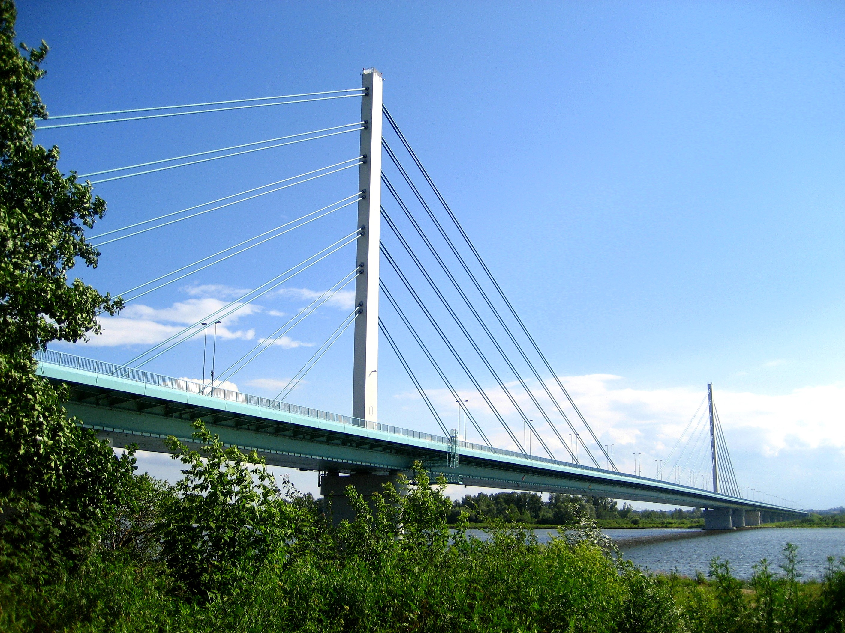 Solidarity Bridge in Płock, Poland. Author: Rommullus - former name of the user Rommullus its Aries1975